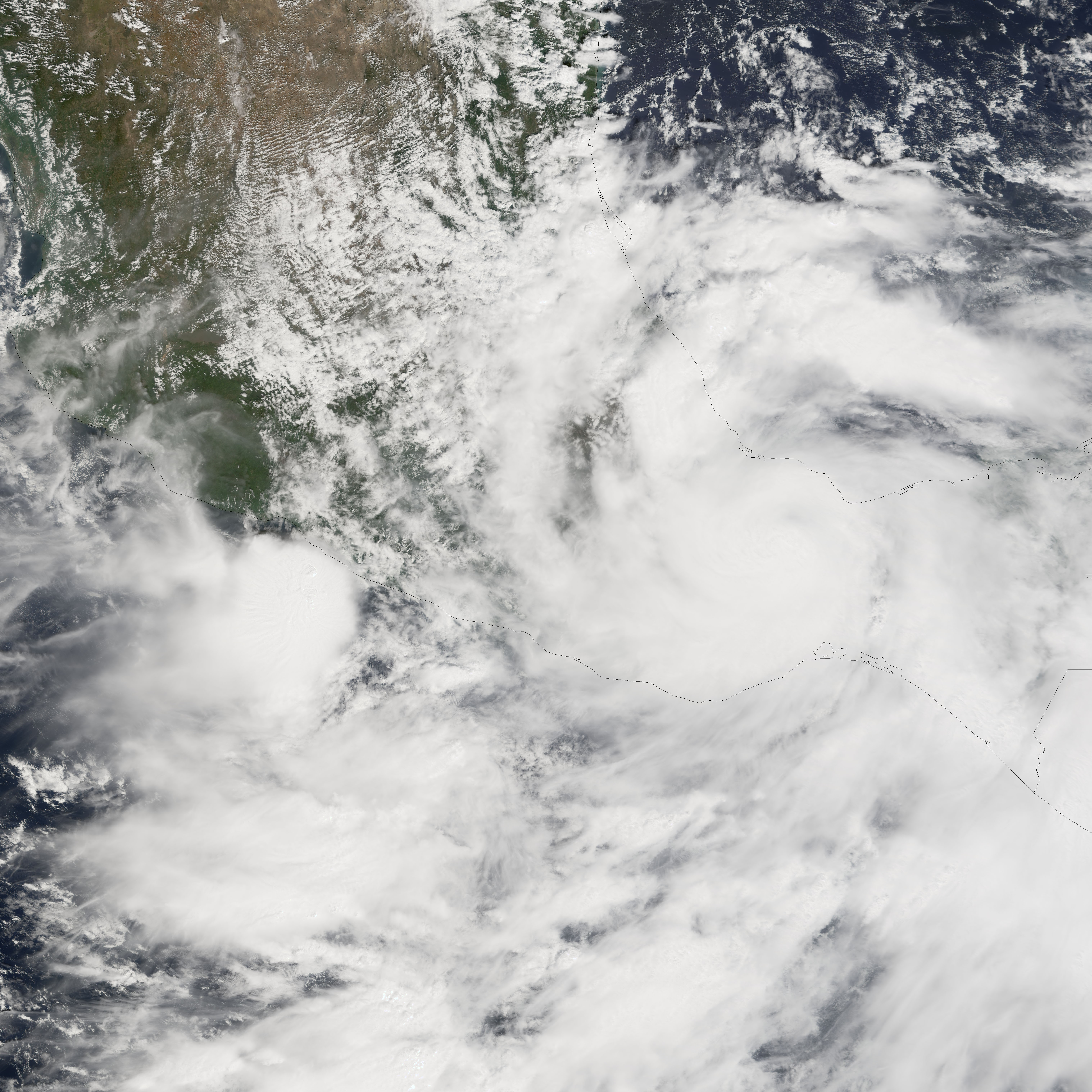 Stan was a Category 1 hurricane as it came ashore on southern Mexico’s Gulf Coast. It carried with it the usual strong winds and rain associated with low-intensity hurricanes. Still, Mexican authories took the storm seriously, evacuating some Gulf oil platforms and shutting down facilities along the coastline around Veracruz, the nearest major city to the landfall area. Some evacuations along coastal towns were also ordered. The storm was blamed for 35 deaths in Central America as it crossed the Yucatan Peninsula, many as a result of landslides from the substantial rain that fell over several days. Mexico City, more than 400 kilometers (250 miles) away from the point of landfall, received rain from Stan’s outer cloud bands. The Moderate Resolution Imaging Spectroradiometer (MODIS) on NASA’s Terra satellite captured this image of Stan at 12:20 p.m. local time, several hours after it made landfall. At the time of this image, Stan was losing strength over land, but still had sustained winds of around 110 kilometers per hour (70 miles per hour), more than sufficient to cause widespread damage not only around the storm’s center, but for quite some distance away. Stan was projected to cross Mexico and enter the Pacific, but projections at the time of this image suggested that it would not re-form in the Pacific.